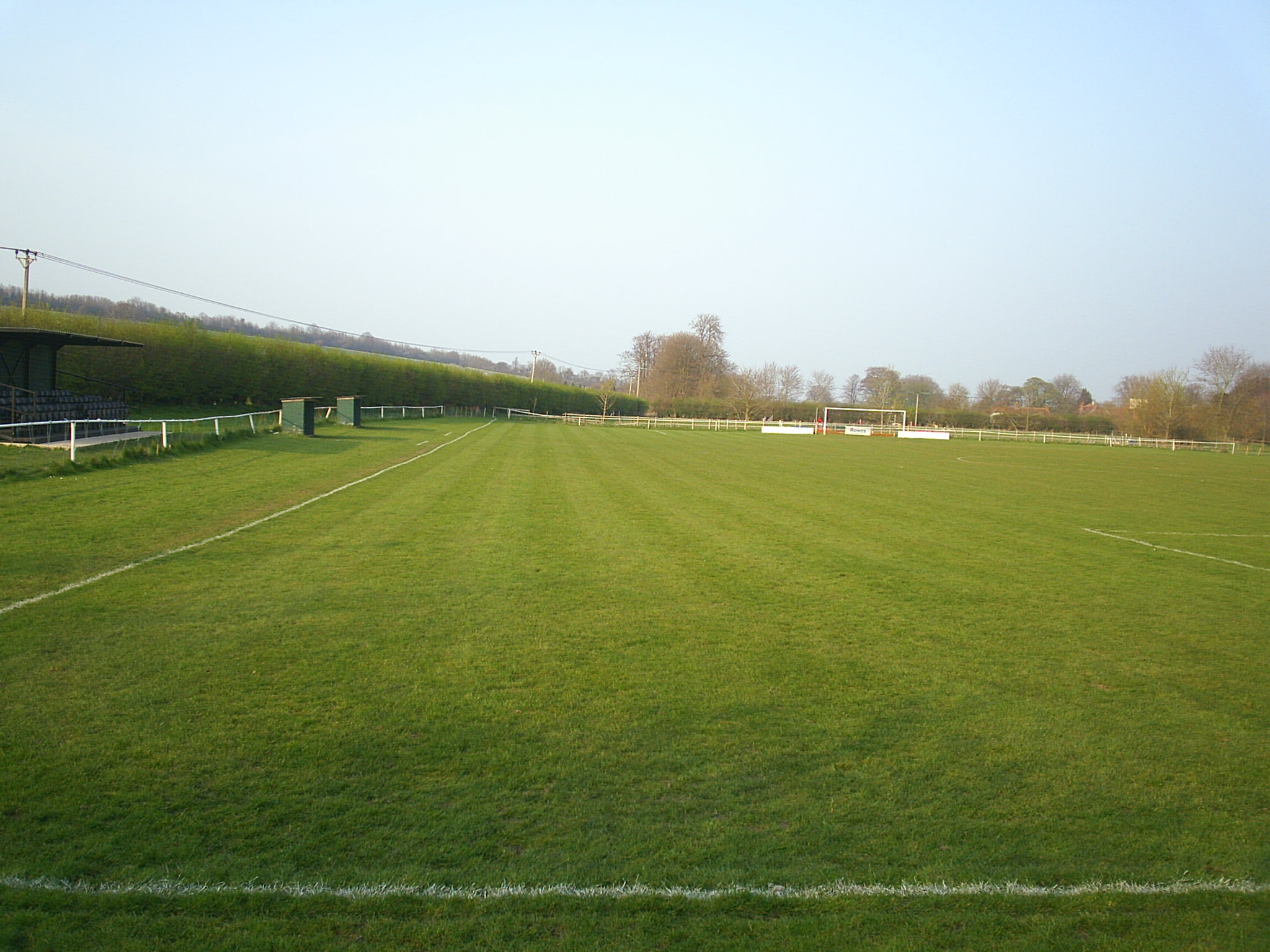 I took this photo on 2/04/07. It has no URL as it is not on anywhere else on the internet (As yet)